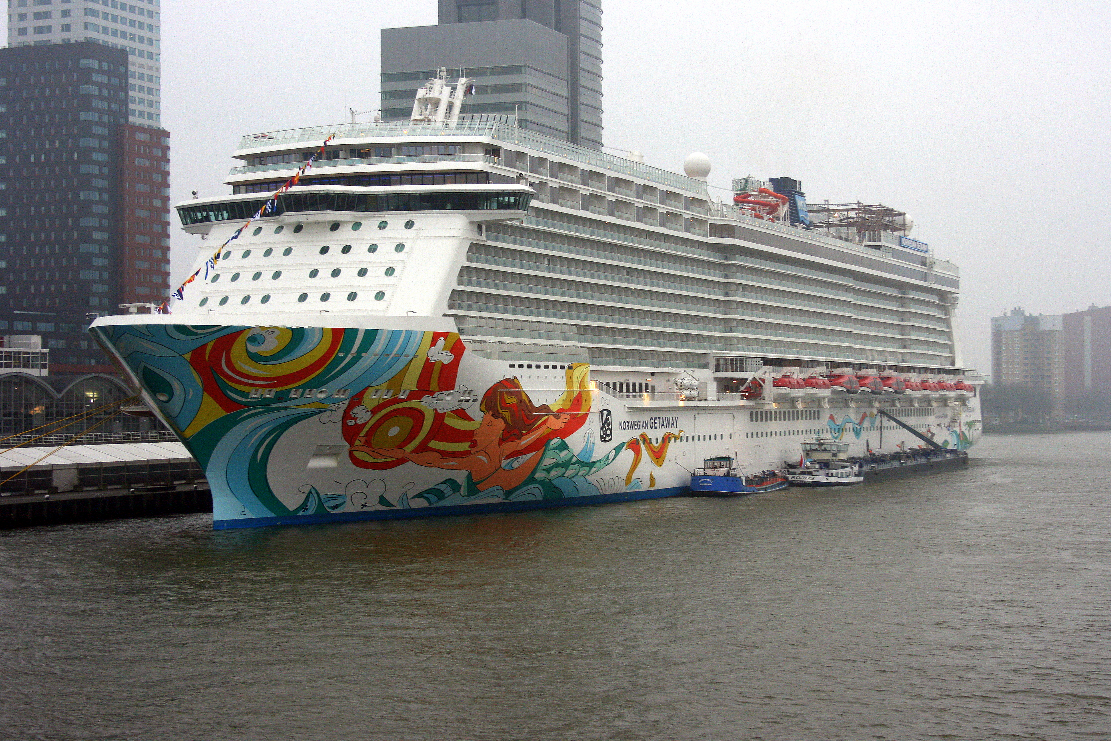 A few hours after its first arrival at the Rotterdam Cruise Terminal.